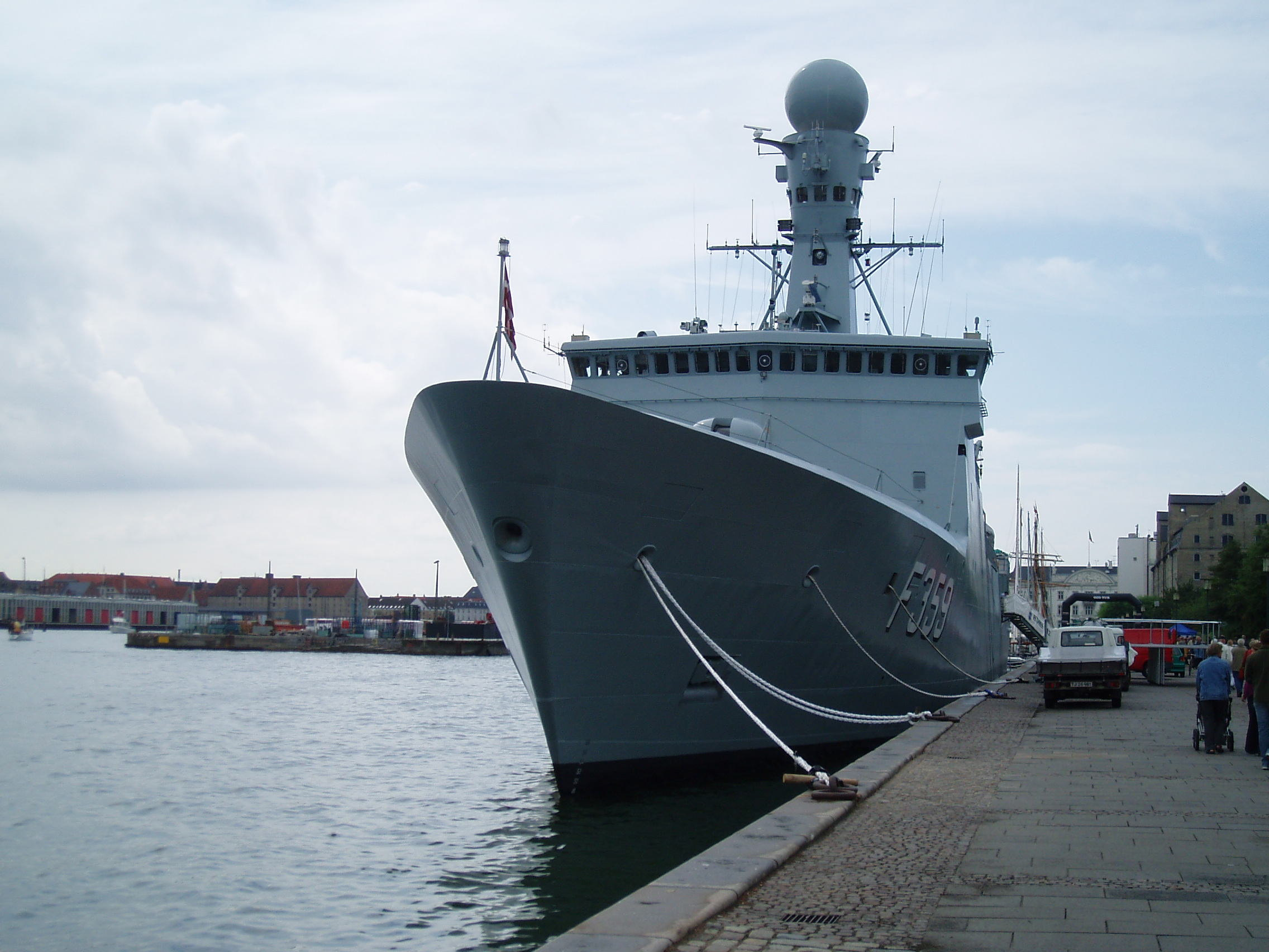 HDMS Vædderen in Copenhagen - stem. The ship will from August 2006 to ca. April 2007 host the third Galathea expedition.